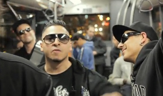 Duke Montana and N. Narcos on a bus (Milan Italy)